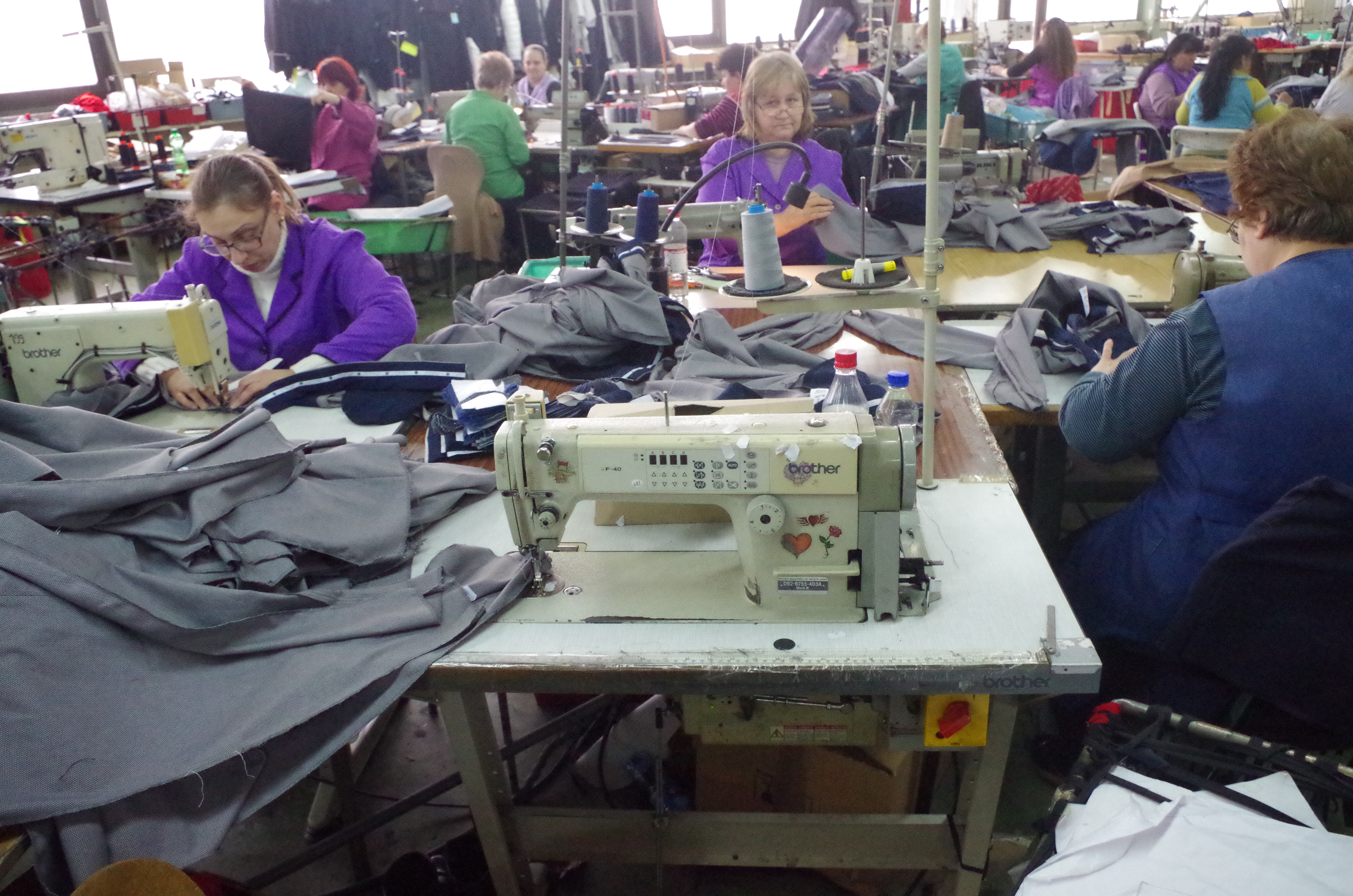 Textile Industry plant of the "Edinstvo" Factory in Strumica, Macedonia